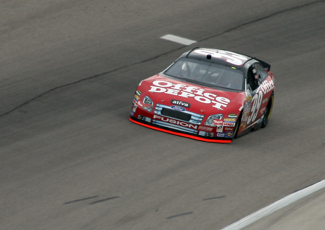 NASCAR driver Carl Edwards at Texas Motor SpeedwayCarl Edwards